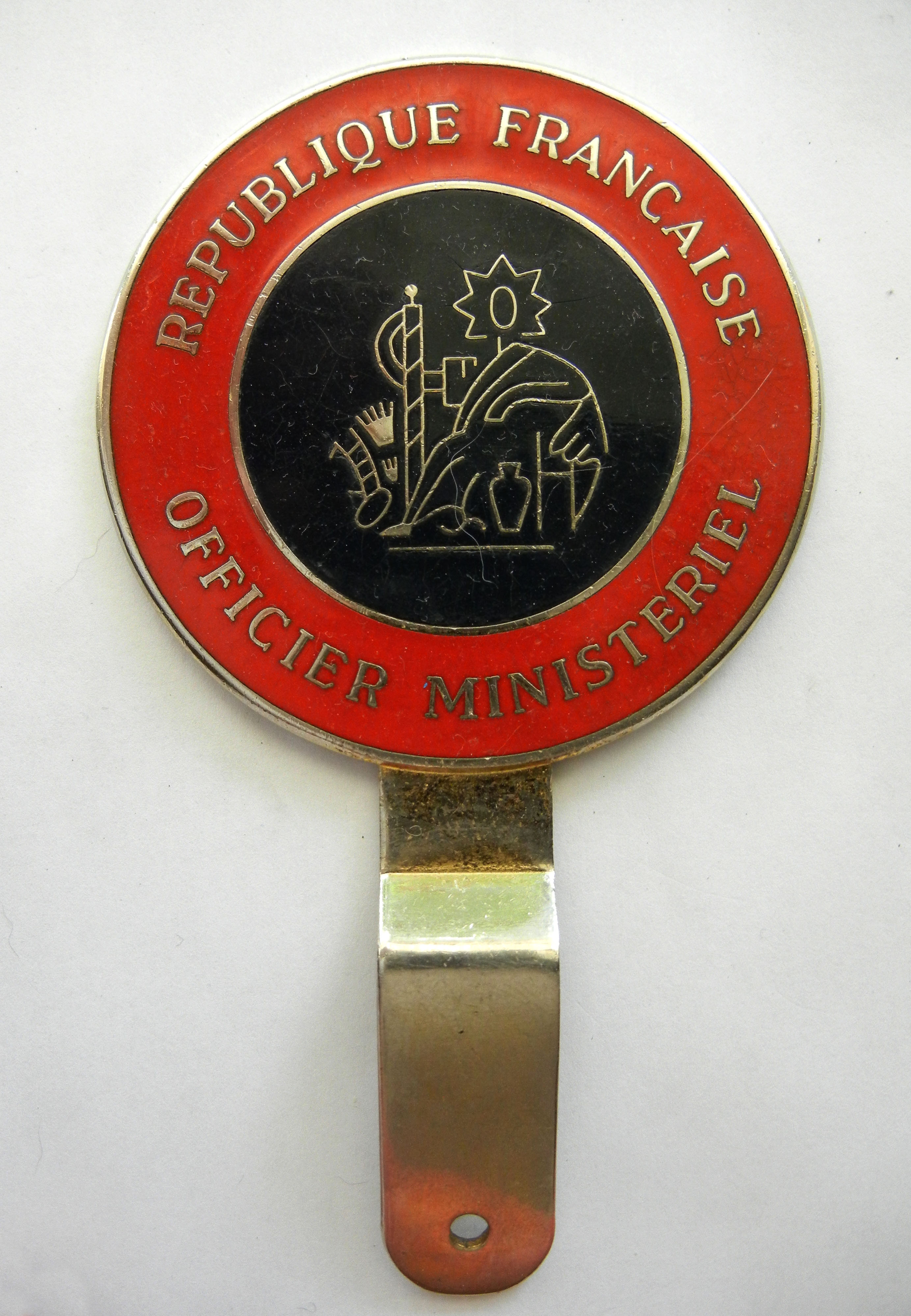 Plate judicial officer for automotive